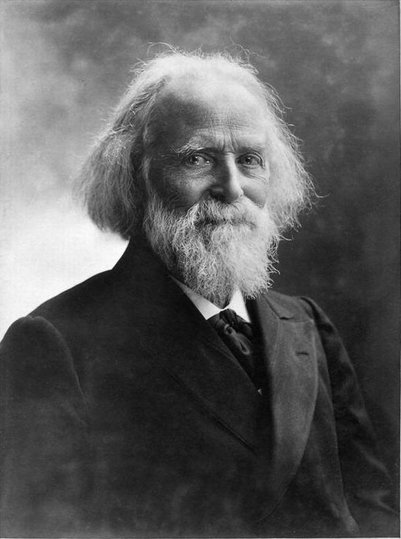 Élisée Reclus, by Nadar, retouched.